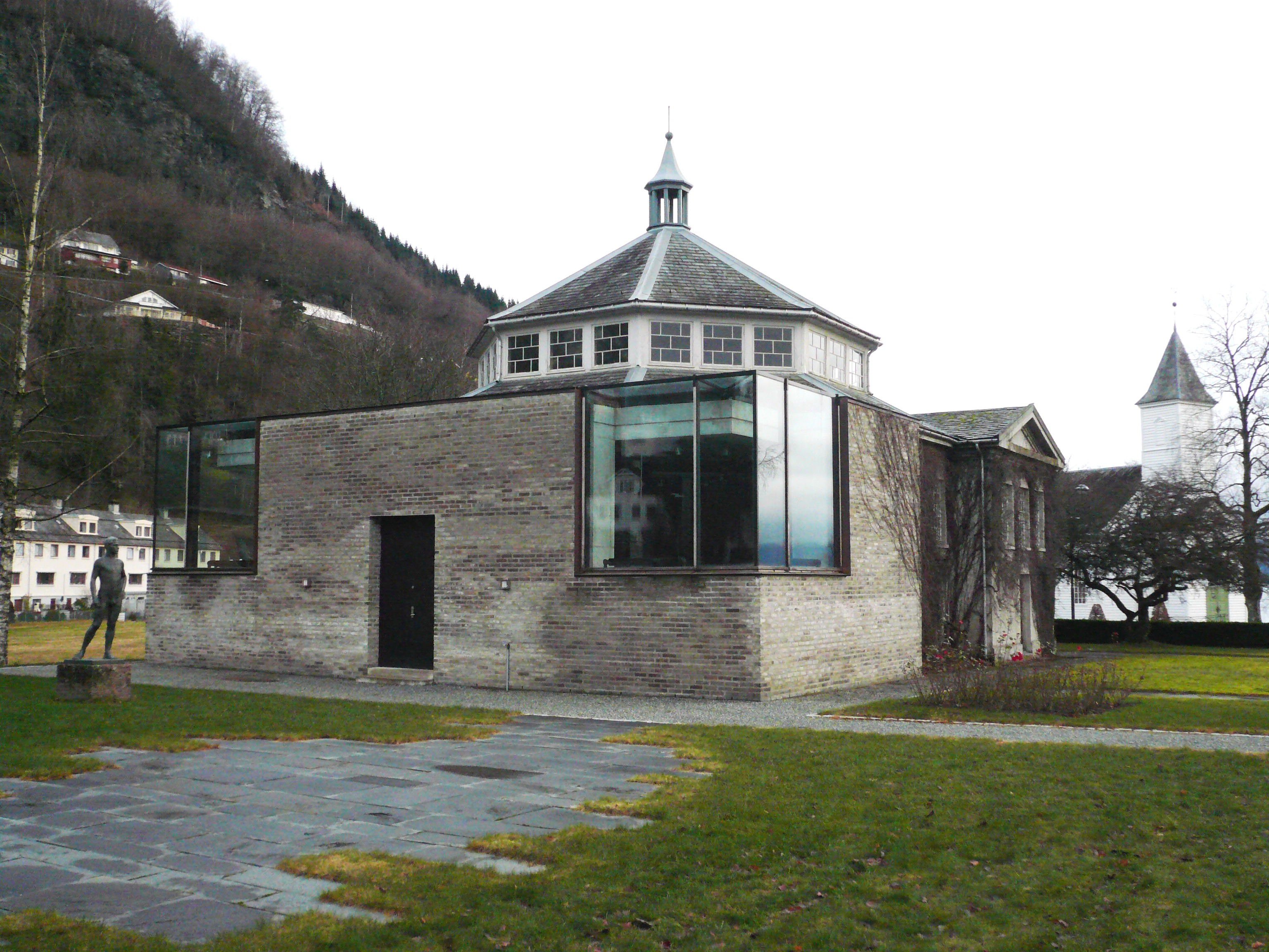 Ingebrigt Vik Museum in Øystese, Norway.